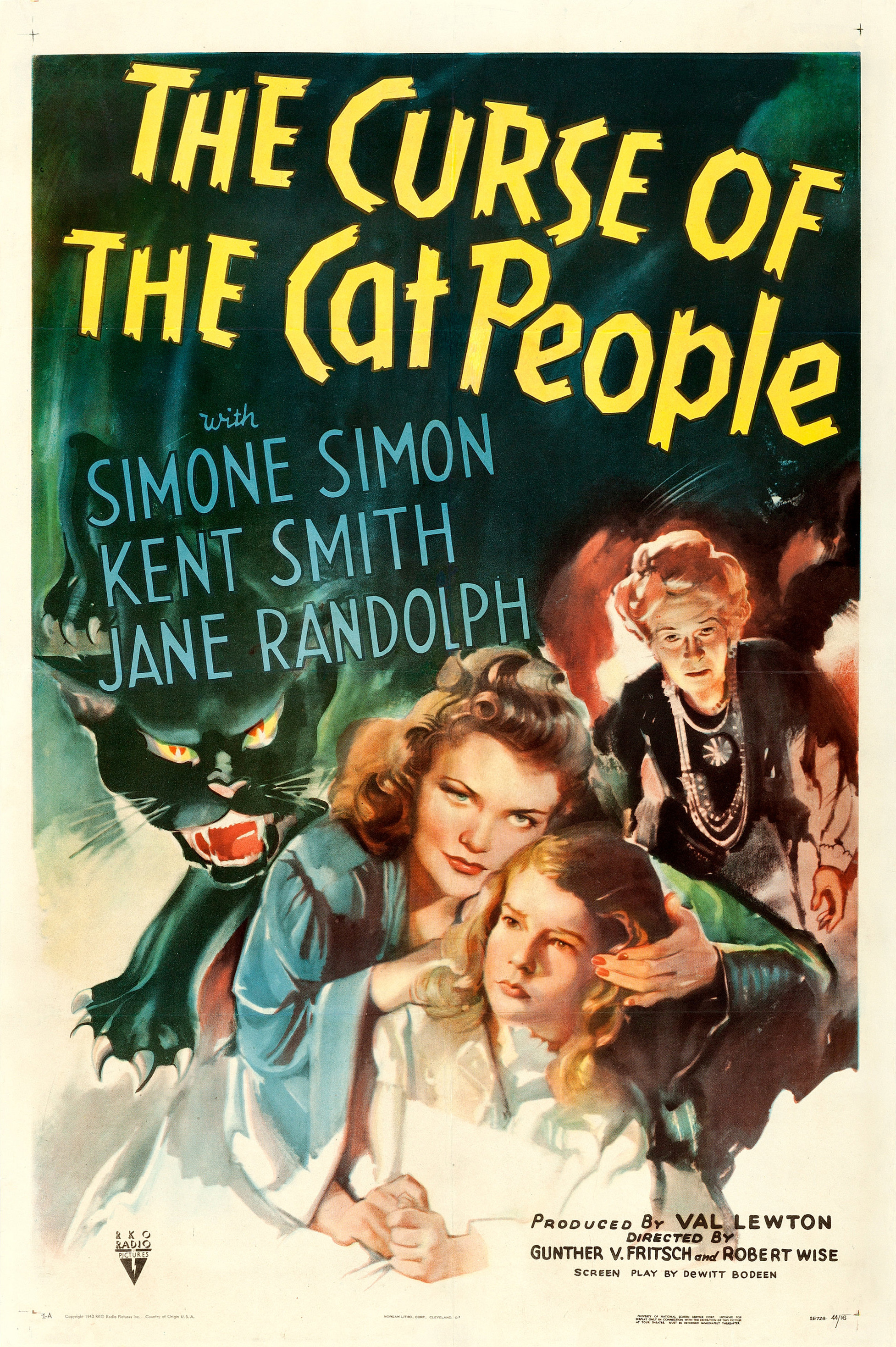 Theatrical poster for the American release of the 1944 film The Curse of the Cat People, the sequel to Cat People.